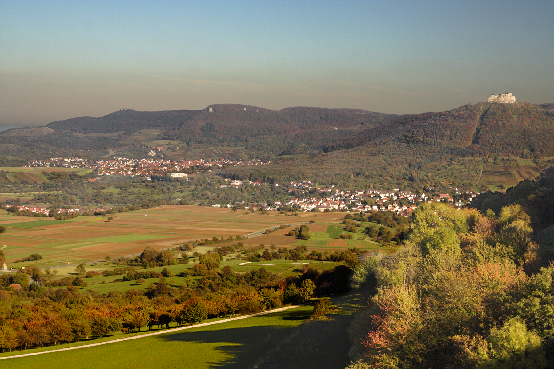 „Albtrauf“, the cuesta of the Middle Swabian Alb, the foothills in front are geolocically „Middle Jurassic“. From right to left: Hohenneuffen Castle, at the far end Castle Teck. Viewpoint: “Jusi”, one of the ca. 350 tertiary volcanos of the Kirchheim unter Teck-Bad Urach-Complex. The cuesta is heavily eroded.